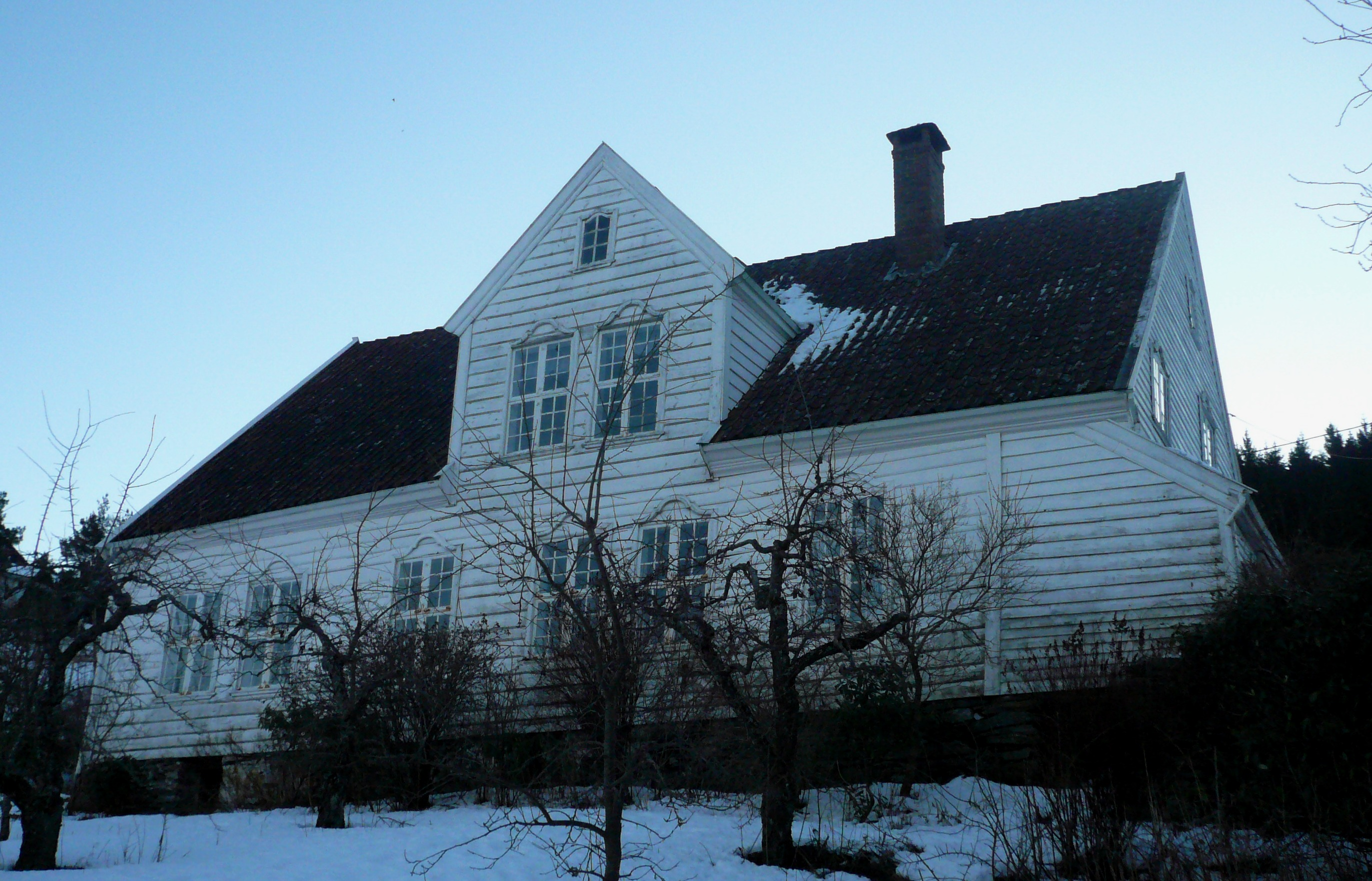 Hesthamar, Ullensvang, Hordaland, Norway